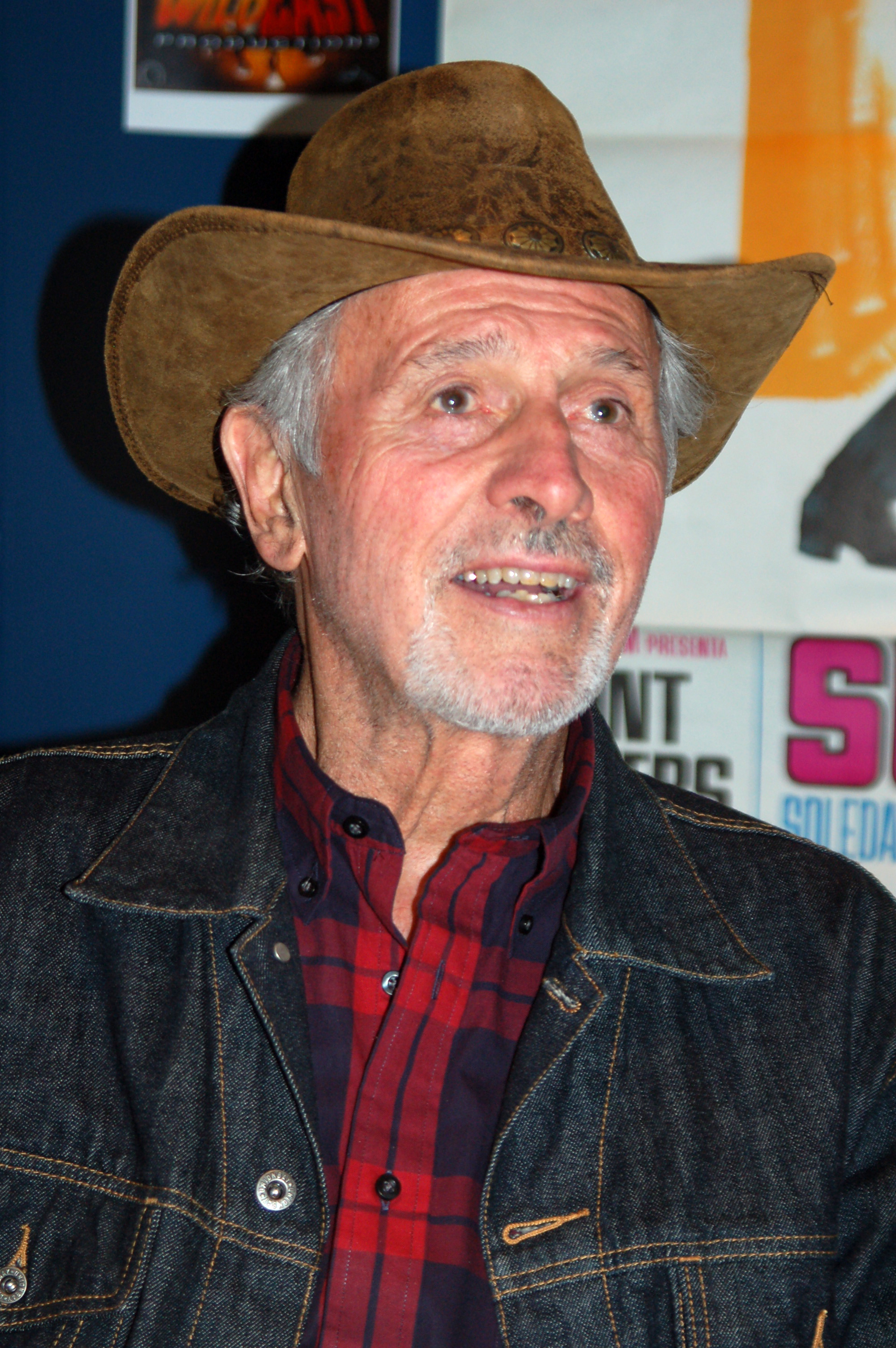 Michael Forest at the 1st Los Angeles Spaghetti Western Festival in March 2011.